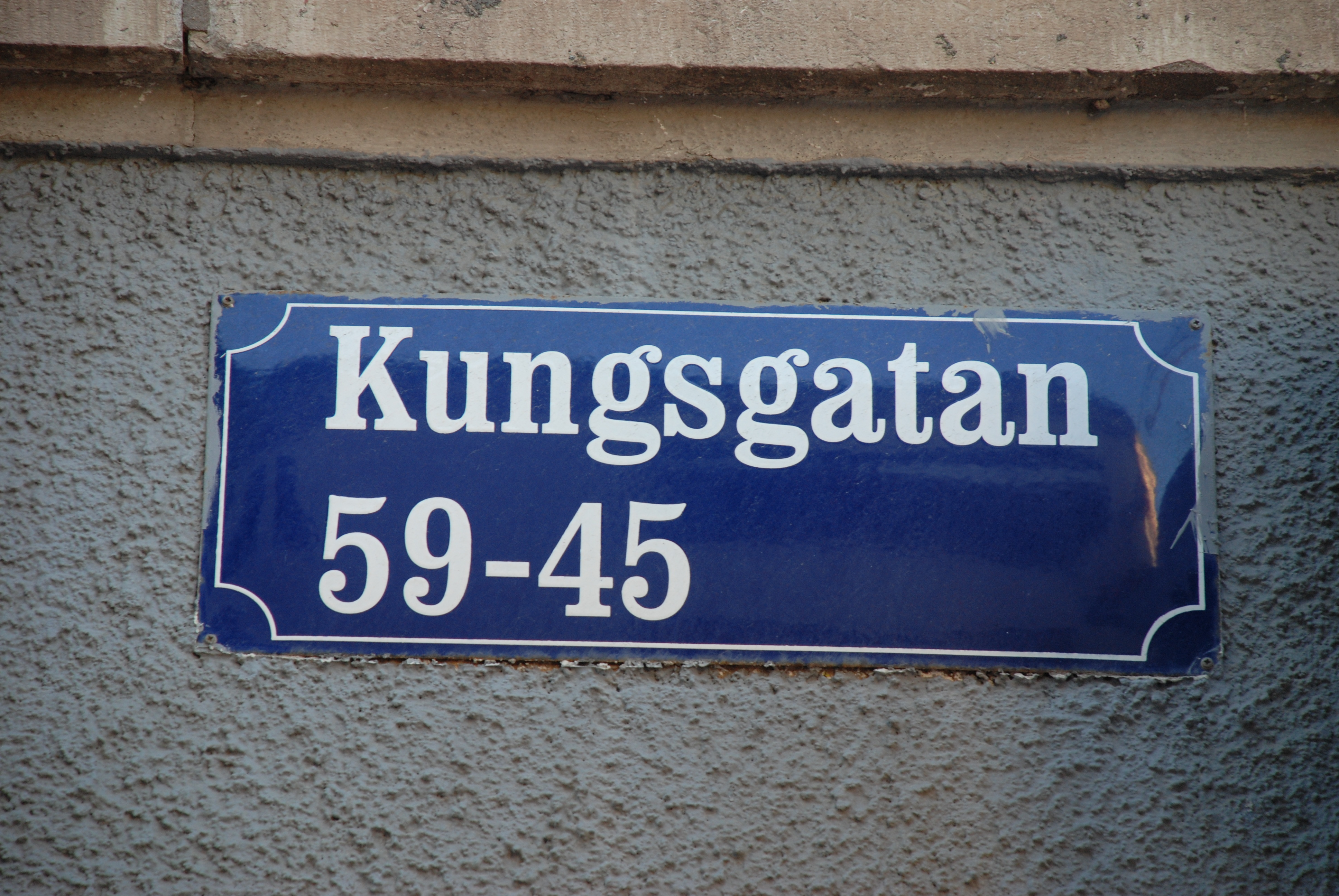 Street sign Kungsgatan i Göteborg.